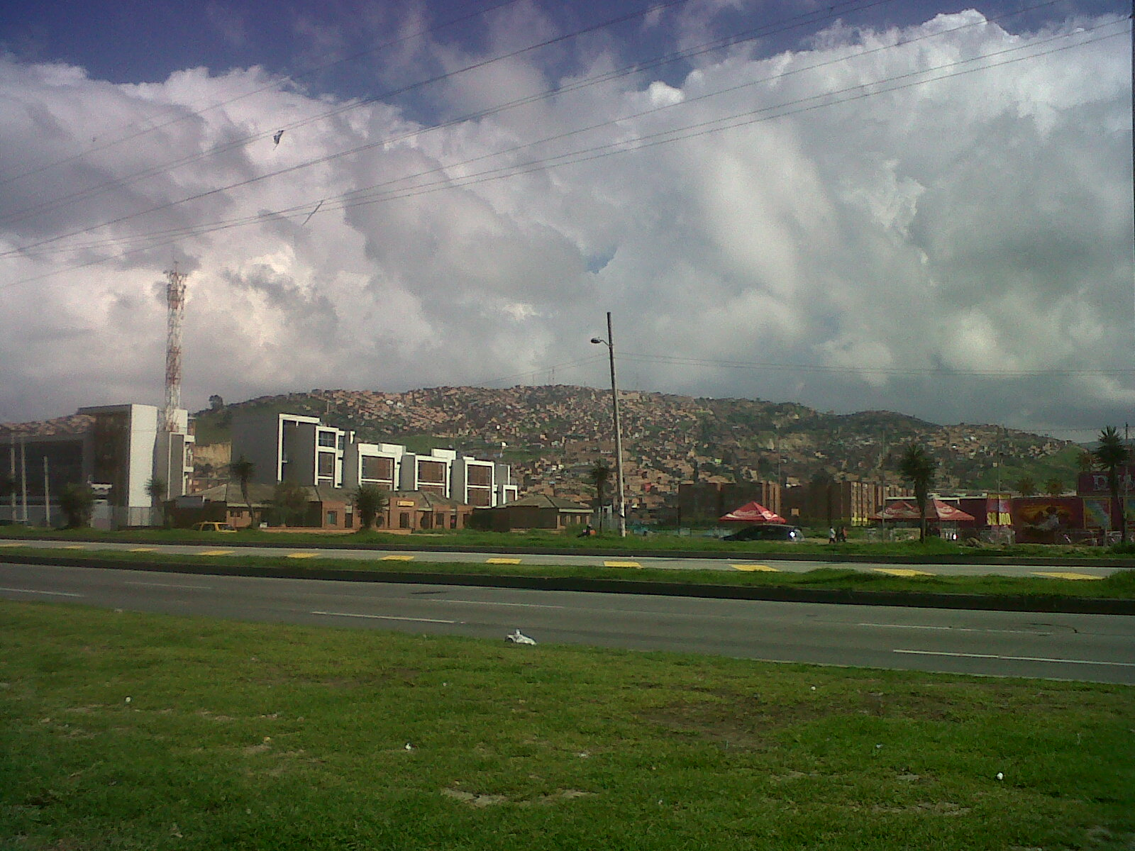 Cazucá Hill: Tutelar mountain of Soacha, on the western side belonging to the city